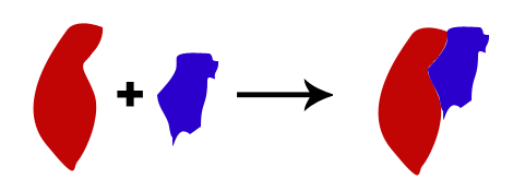 Molecule + molecule docking. Anyone can use it or edit.